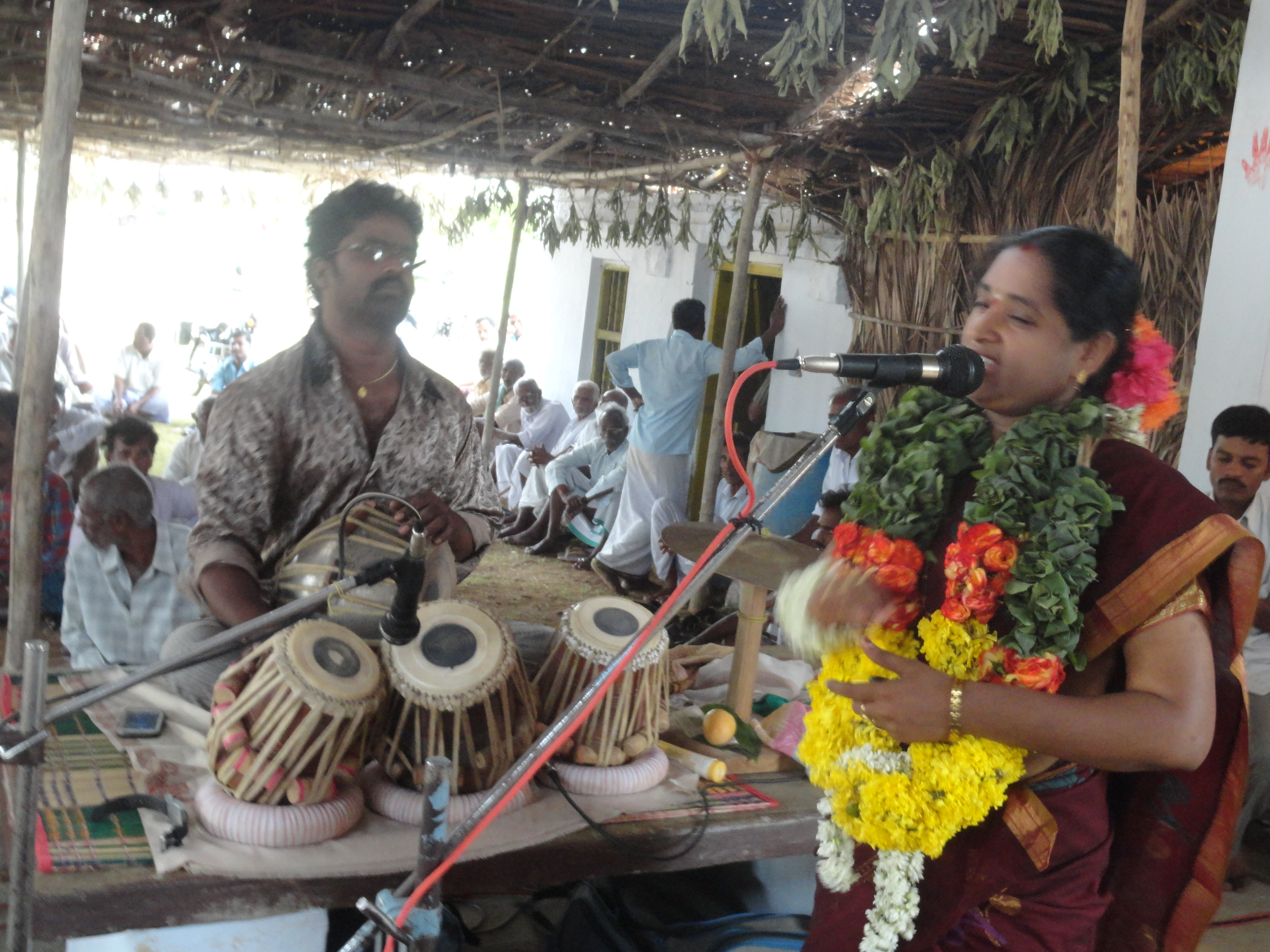 హరికథలొ ఒక భాగము.... మొగరాలలో